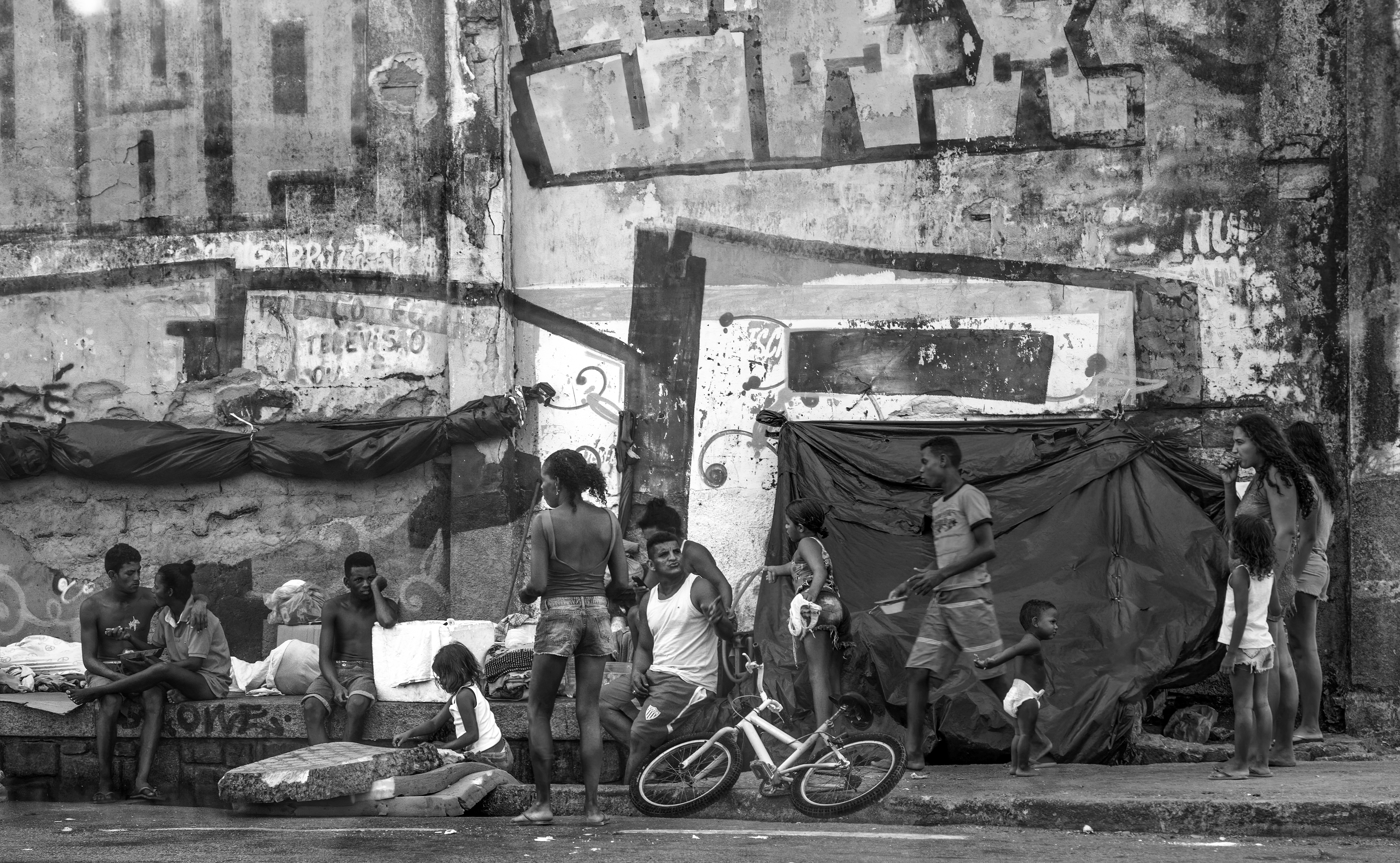 Recife, the Brazilian capital of social inequality.[1]